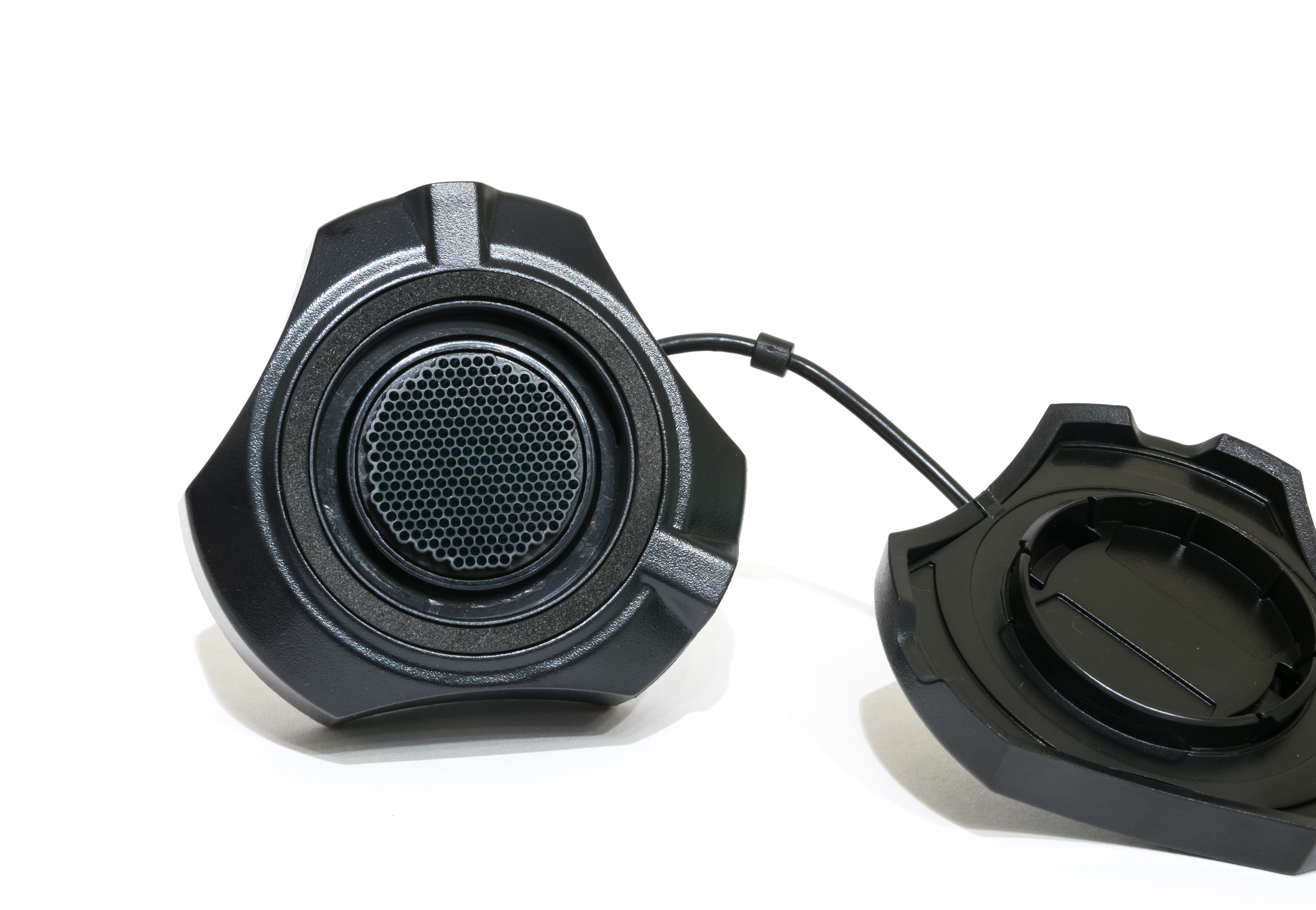 Datacolor Spyder 5 colorimeter